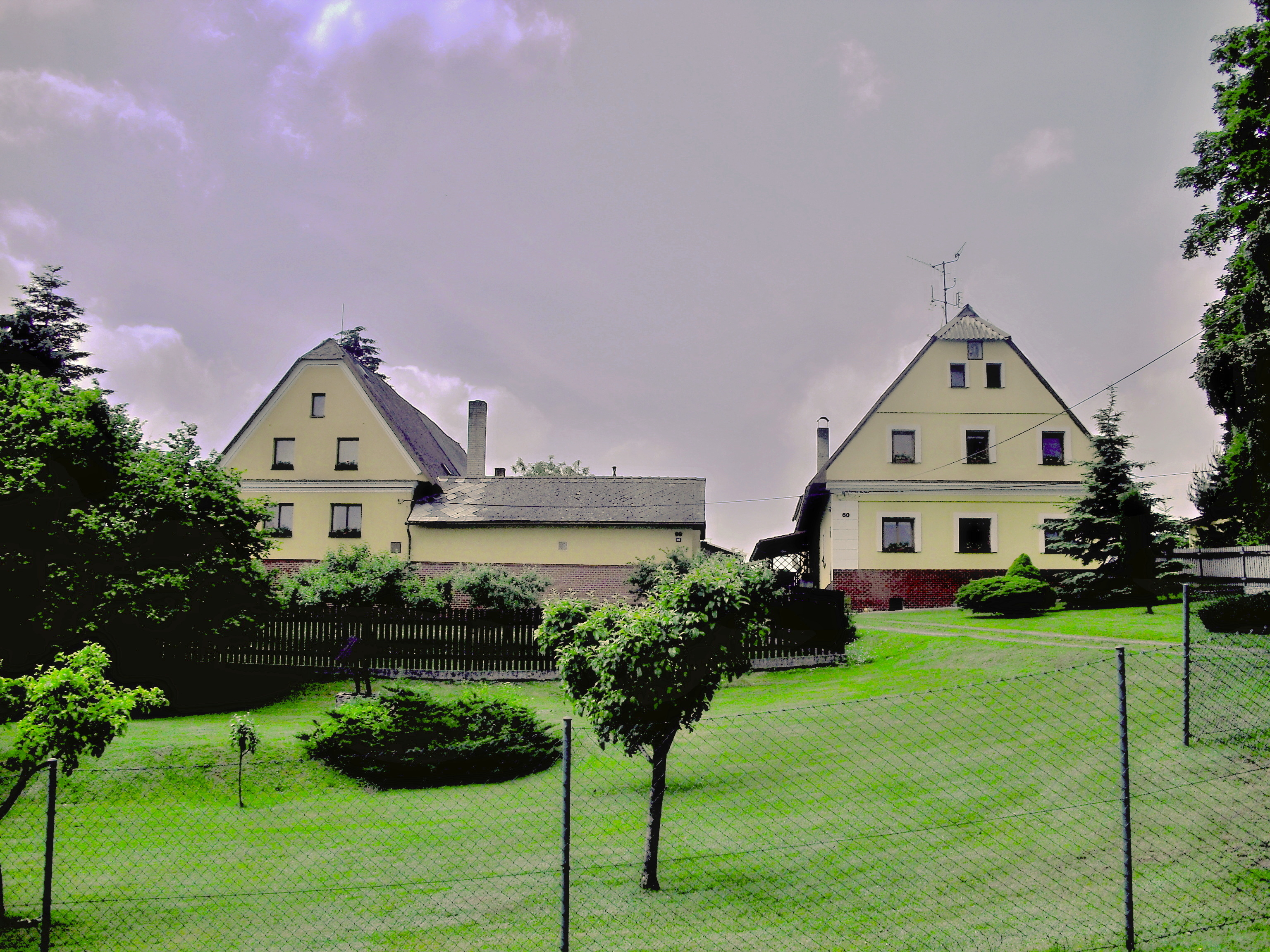 Odry, Nový Jičín District, Czech Republic, part Kamenka.